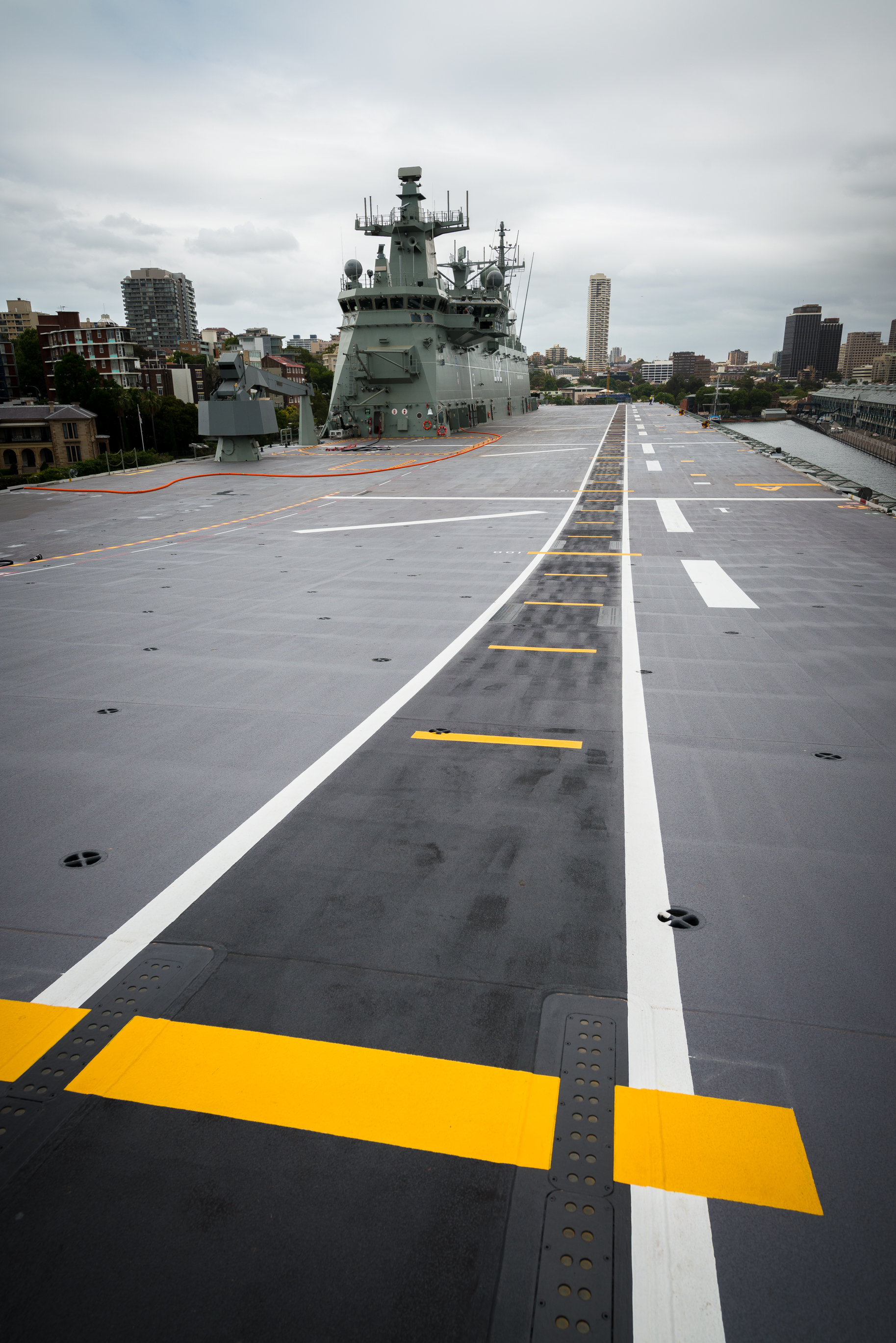 Flight Deck from Ski-Jump of HMAS Canberra (LHD 02)